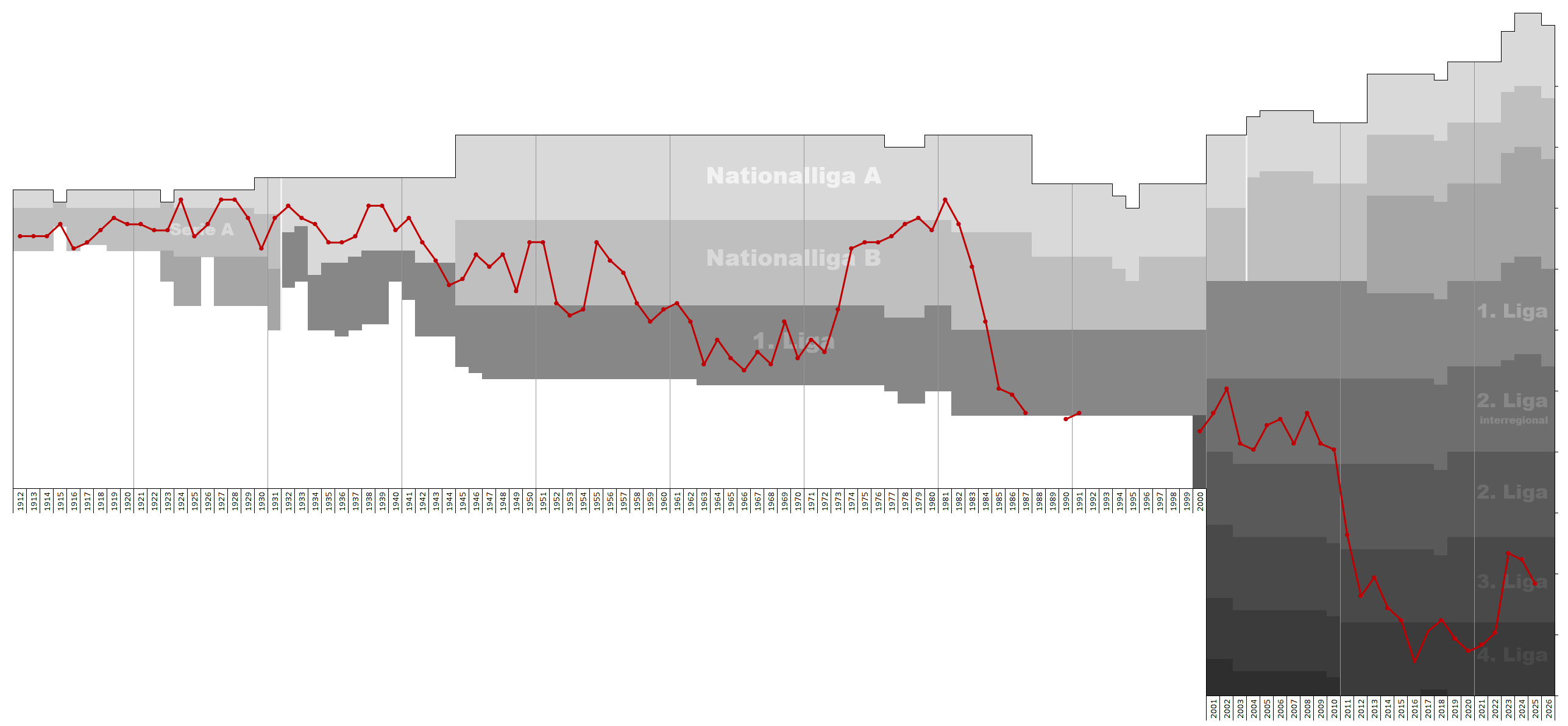 Chart of end-season table positions for FC Nordstern Basel in the Swiss football league system. Data source: RSSSF, . al-la.ch